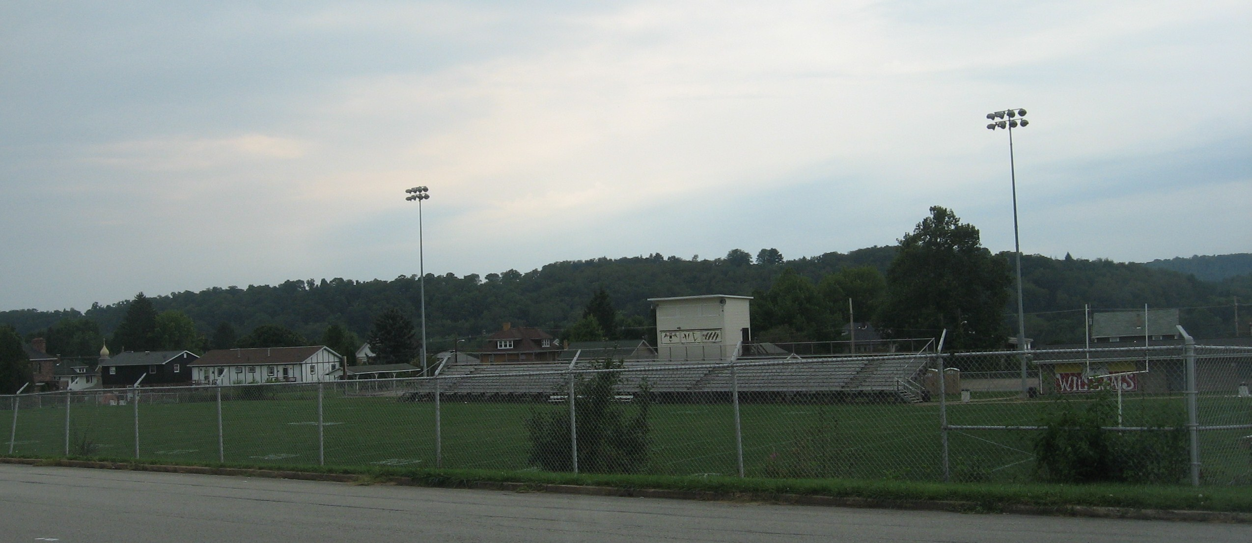 Memorial Stadium, part of the Homer-Center School District.